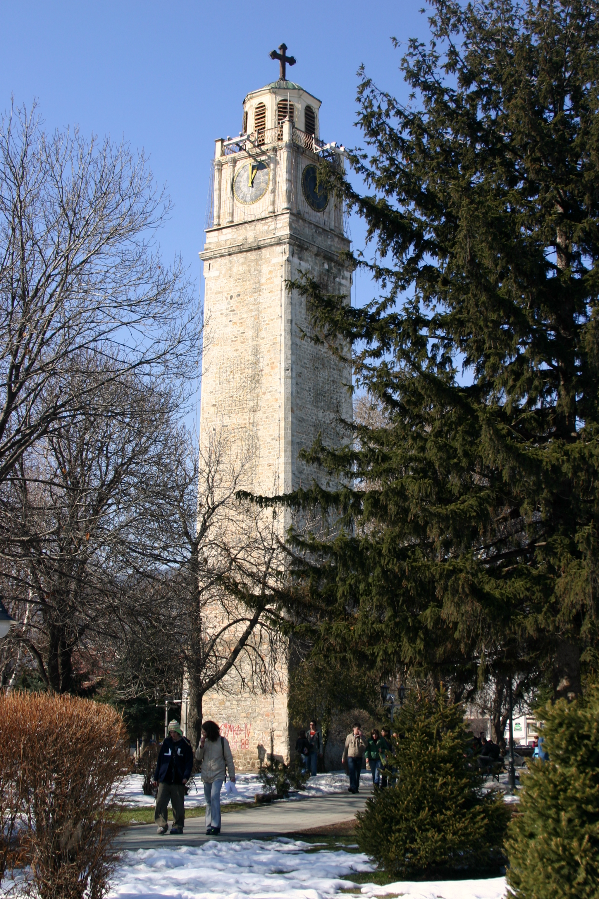 The clocktower near the center of the city